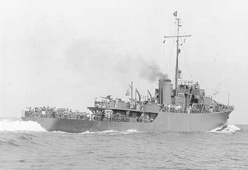 U.S. Coast Guard photo